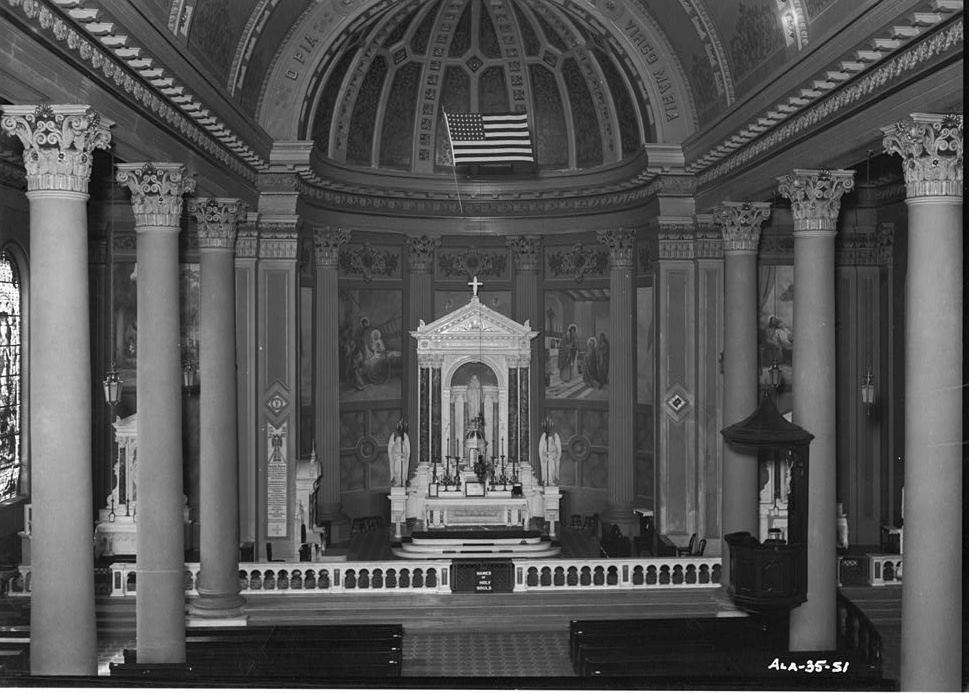 Cathedral of the Immaculate Conception in Mobile, Alabama. View of the west end of the nave from the organ balcony showing sanctuary and apse.